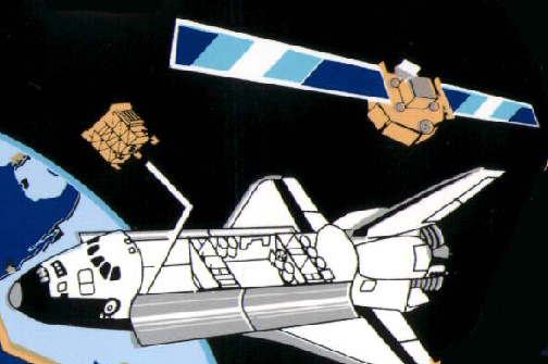 SFU (Space Flyer Unit) over Shuttle. Excerpt from STS-72 Mission Logo